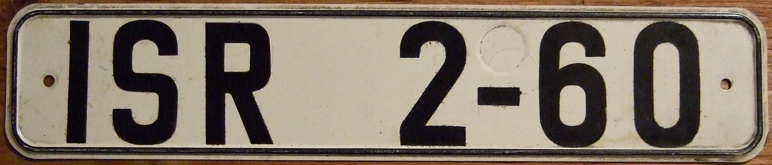 Prefix ISR issued in East Berlin.